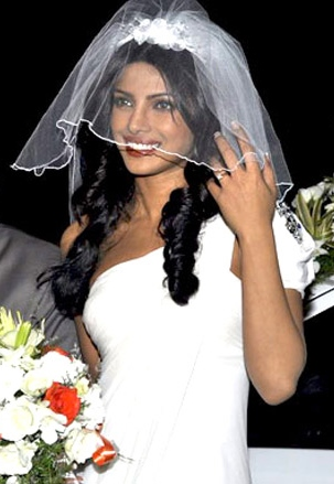 Priyanka Chopra at 7 Khoon Maaf media meet